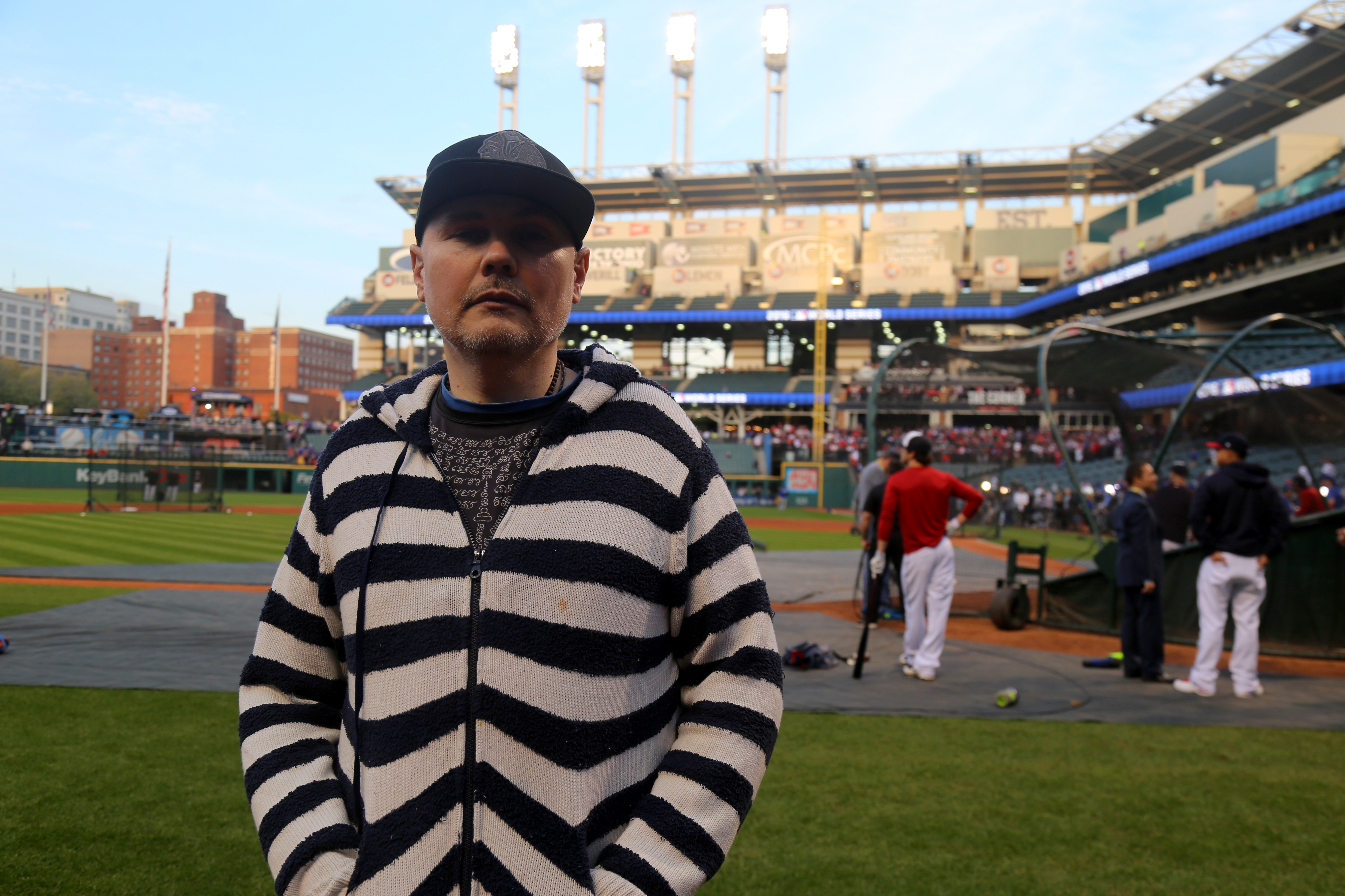 Musician and Cubs fan Billy Corgan has his game face on for Game 7.